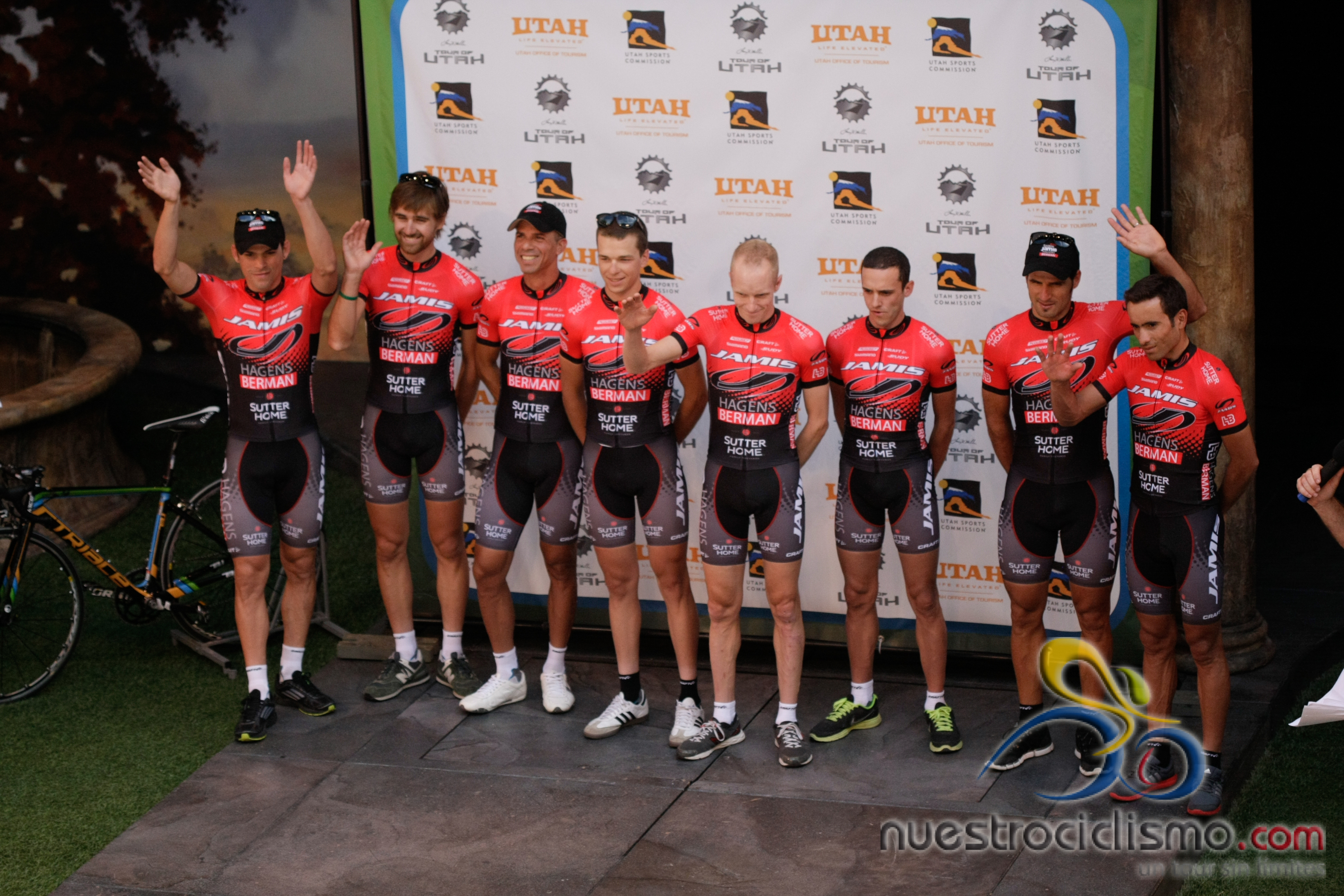 Jamis-Hagens Berman Cycling Team, at the presentation of the Tour of Utah 2013